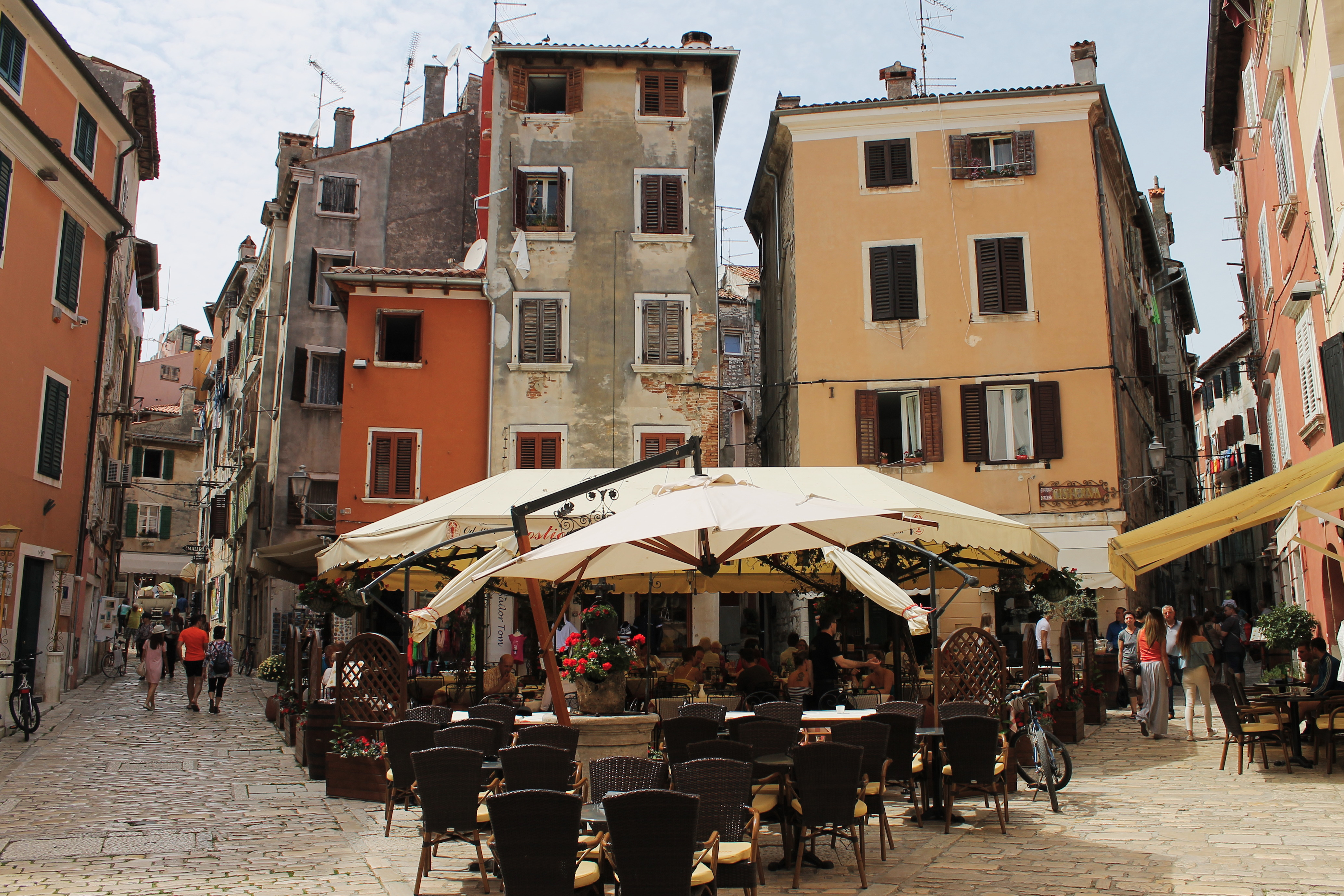 The old town of Rovinj derives all its charm from its alleys lined with very tall houses with hinged shutters. Some end in piazza Matteotti. Others lead to the Grand'Place, surrounded by old houses.